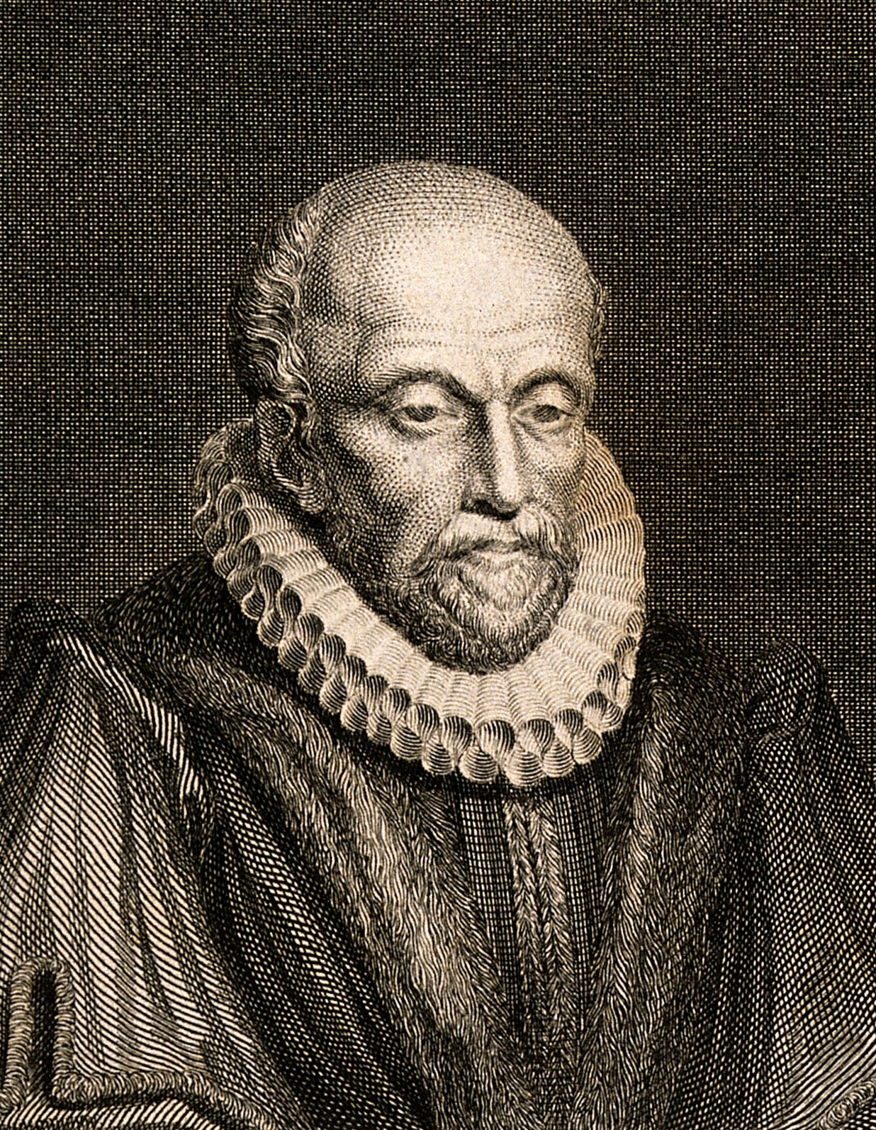 John Stow and Thomas Gresham. Line engraving by A.W. Warren, 1808. Iconographic Collections Keywords: Thomas Gresham; John Stow; Alfred William Warren